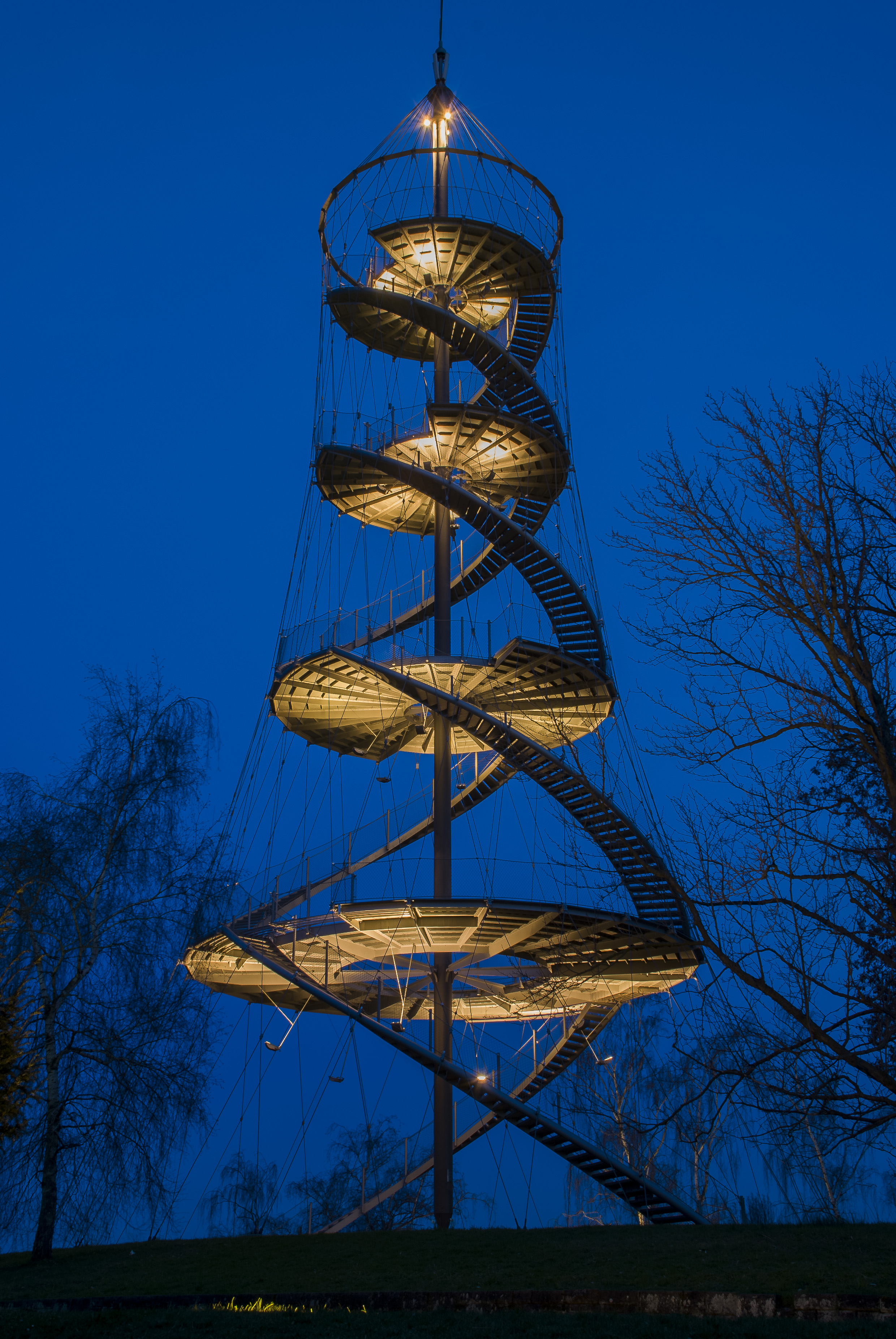 Killesberg Tower at night (Stuttgart, Germany)